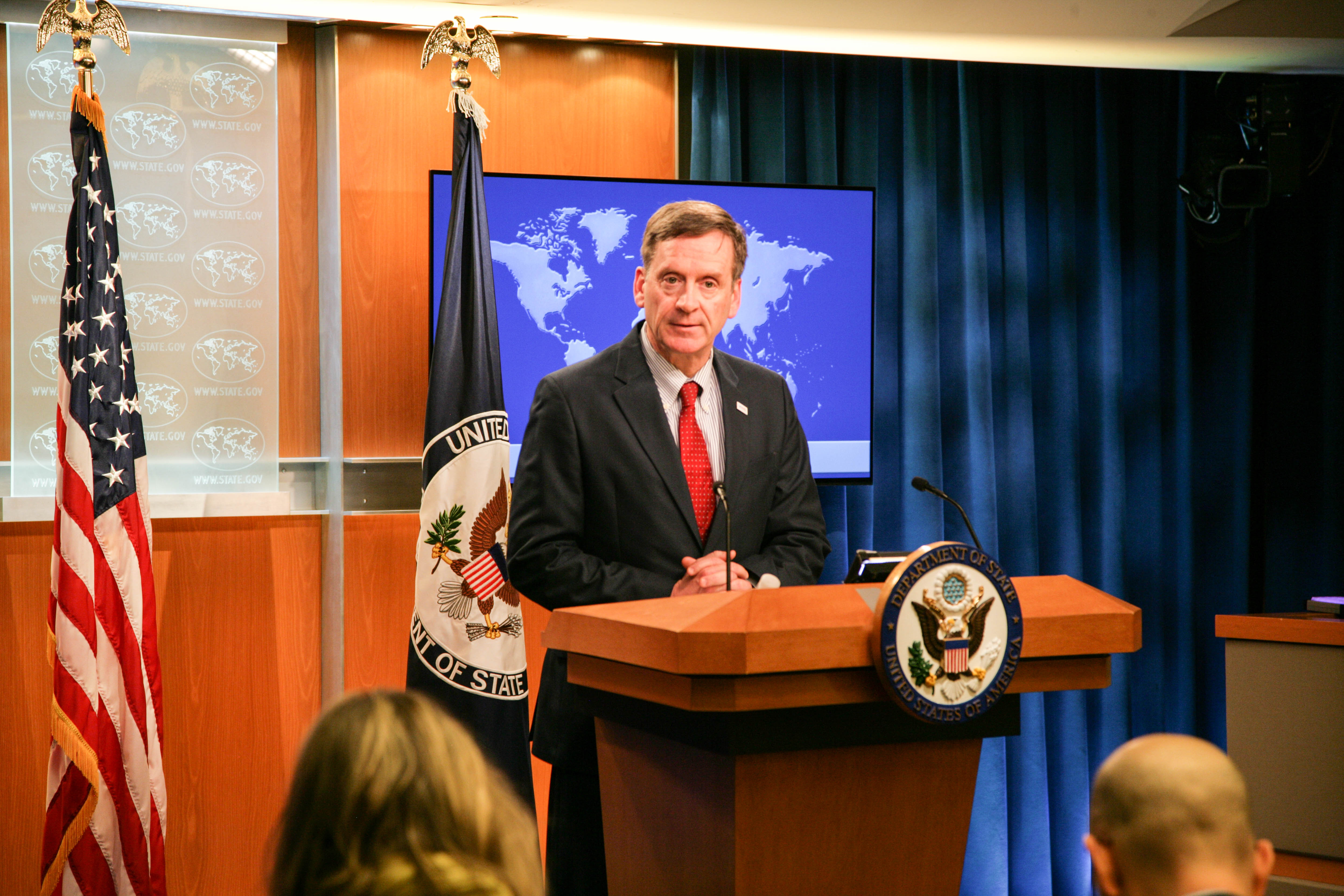 Deputy Secretary of State John Sullivan delivers remarks with USAID Administrator Mark Green on the FY 2020 Budget Request in the Press Briefing Room, at the Department of State in Washington, D.C., on March 11, 2019. [State Department photo/ Public Domain]